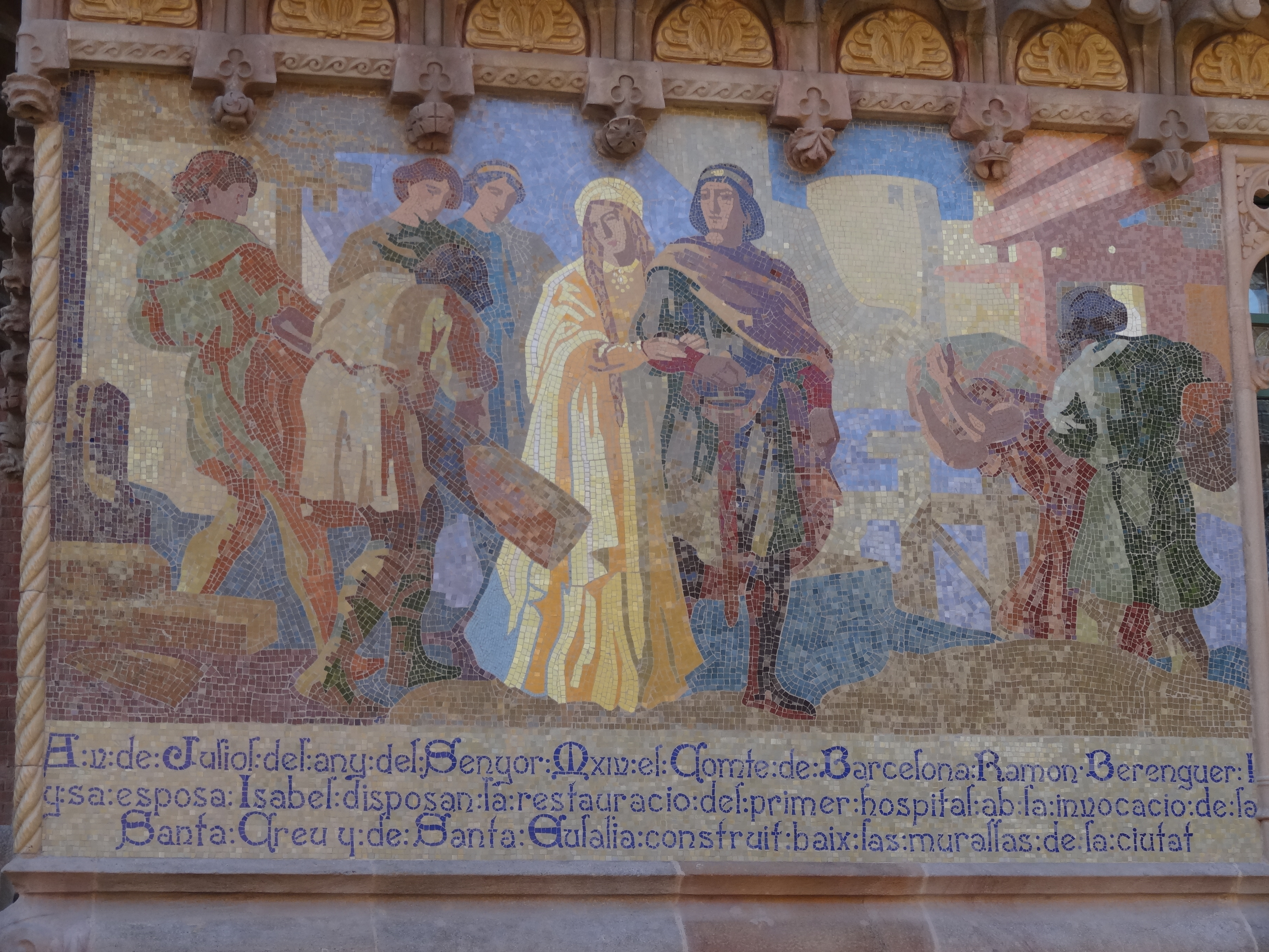 Mosaics by Mario Maragliano at Pavelló de l'Administració (Hospital de la Santa Creu i Sant Pau, Barcelona). They depict the history of this hospital.